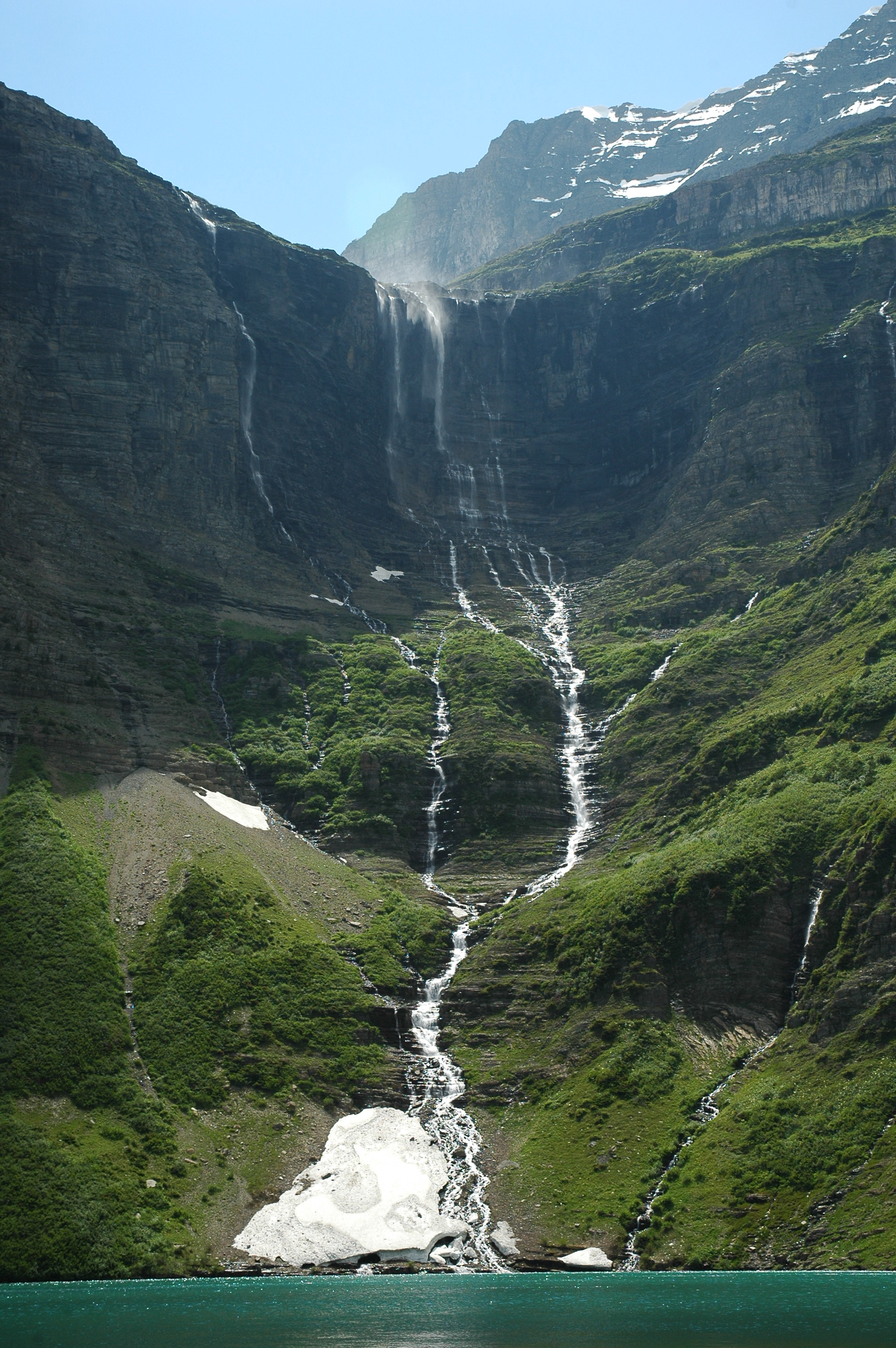 Beaver Chief Falls is a waterfall with connects Lake Ellen Wilson and Lincoln Lake at bottom.